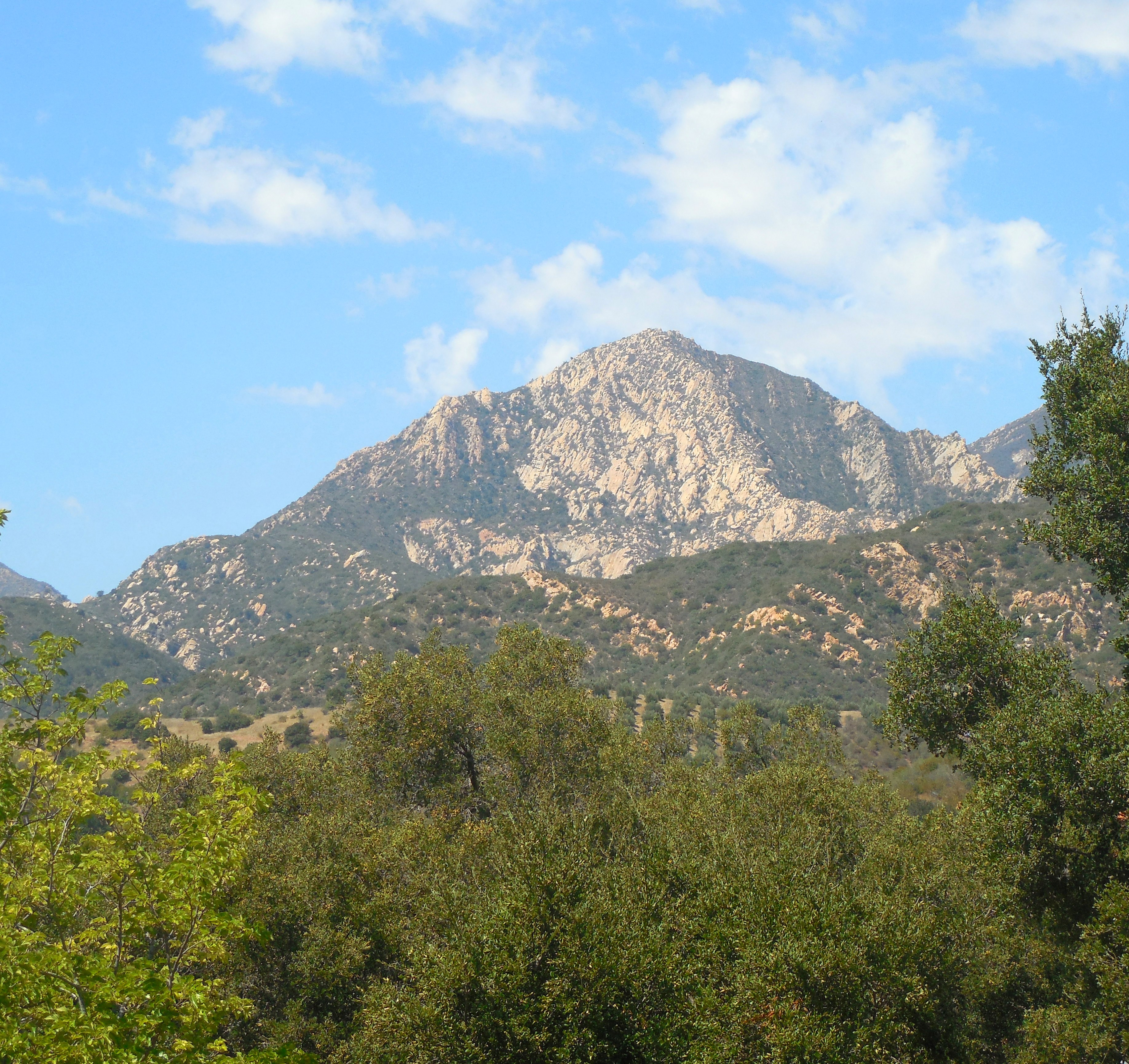 Southern view of Arlington Peak (elevation 3,250') of the Santa Ynez Mountains from Skofield Park in Santa Barbara, California, 2017